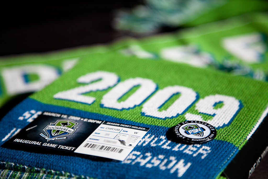 An image of a ticket for the Seattle Sounders inaugural game, scarf and pin badge. Original description - "The inaugural game ticket for the Seattle Sounders FC soccer match is a scarf."